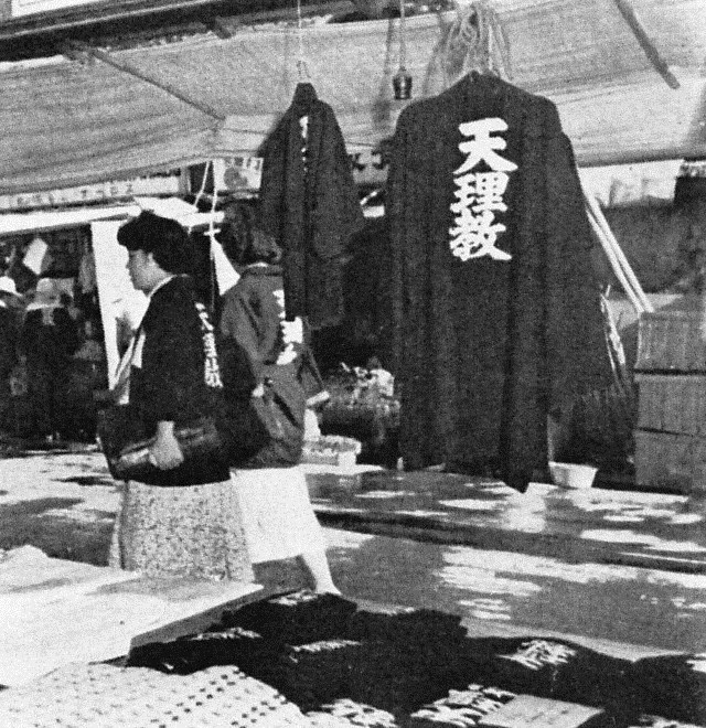 Tenrikyo Happi used as uniforms for Tenrikyo followers. "天理教" means "Tenrikyo" in Japanese.